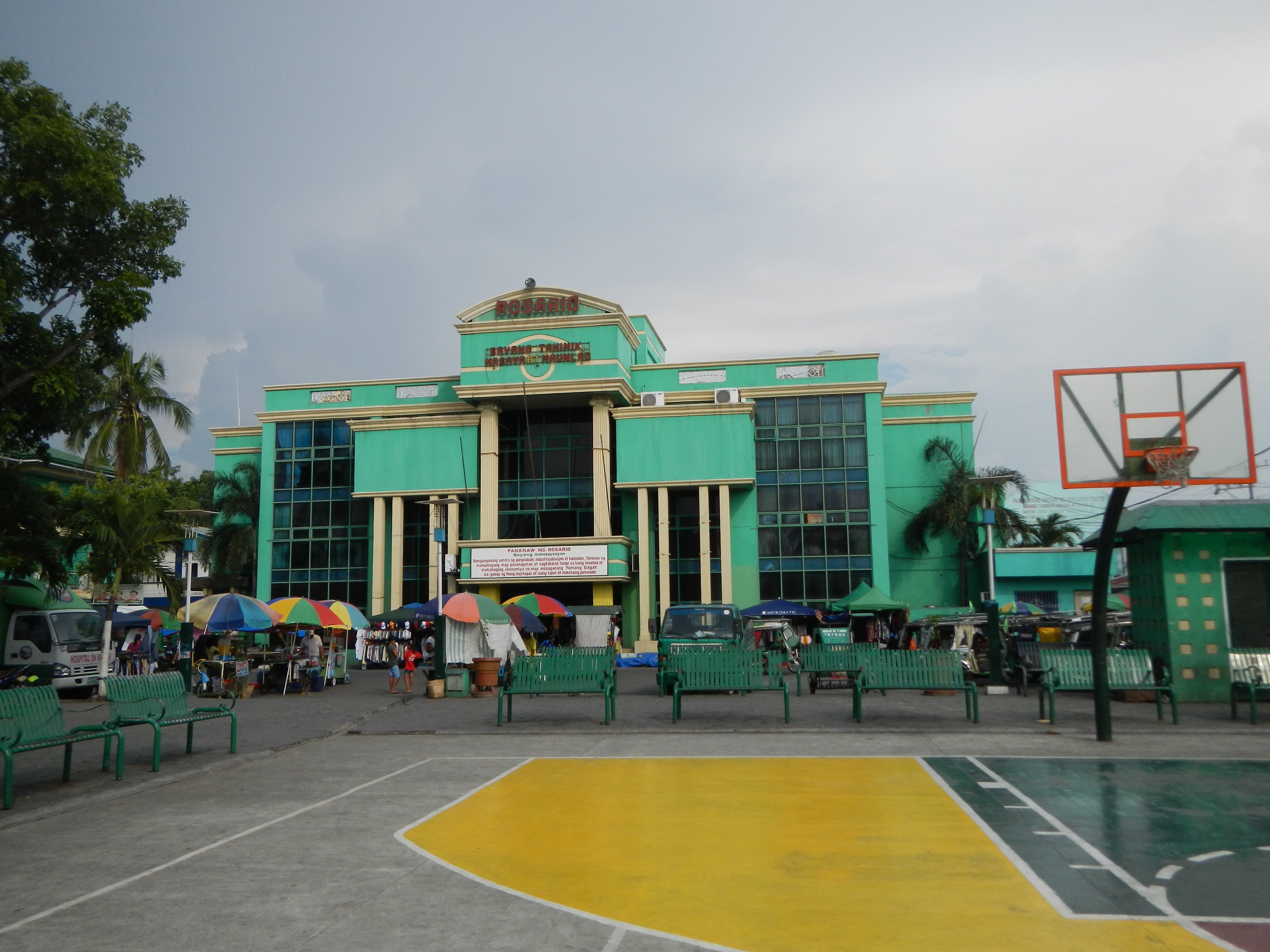 Town Hall of Rosario, Cavite[1]Coordinates: 14°24'48"N 120°51'44"E [2] [3] Coordinates: 14°24'32"N 120°51'25"E The mall complex is located along General Trias Drive in Rosario, Cavite. [4] Coordinates: 14°24'58"N 120°51'20"E [5] ---------[N.B. Photography of Rosario, Cavite[6]: 30% cloudy and 70% sunny weather using my Nikon AW 100 waterproof shockproof camera. From Bulacan at 9:35 a.m., I took photo of the Baliuag Transit Original station, and at 11:38 a.m., the 5th Avenue LRT Station[7]; then I arrived at Rosario, Cavite and captured Noveleta Battle bridge at 2:08 pm, and then the Salinas Town or Rosario, Cavite at 2:33 pm and finished photography at 7:04 pm, and arrived at Bulacan at 11:30 pm after 4+ hours of travel by bus, and started uploading via slow internet at 11:40 pm - I hereby certify that these raw, original and unedited photos are exclusive for Commons and Wikipedia never uploaded in any Internet or any site, and for the public domain without any condition.]